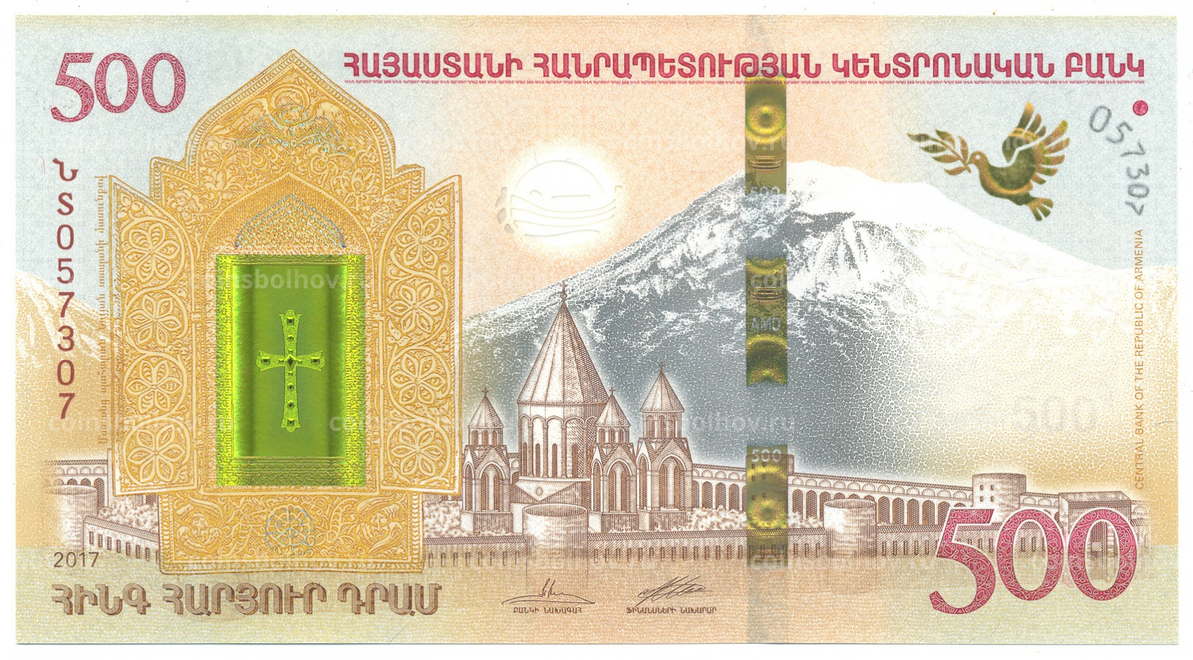 "Noah’s Ark" collector banknote - 500 dram Armenia. Images of Reliquary with a fragment of Noah’s Ark and the Monastery of Etchmiadzin, on the background - the Mount Ararat.